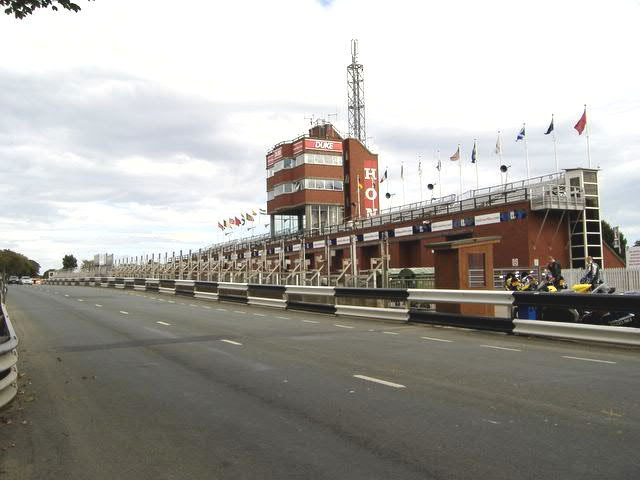 T.T. Grandstand, Douglas. The start/finish point for the T.T. Races.